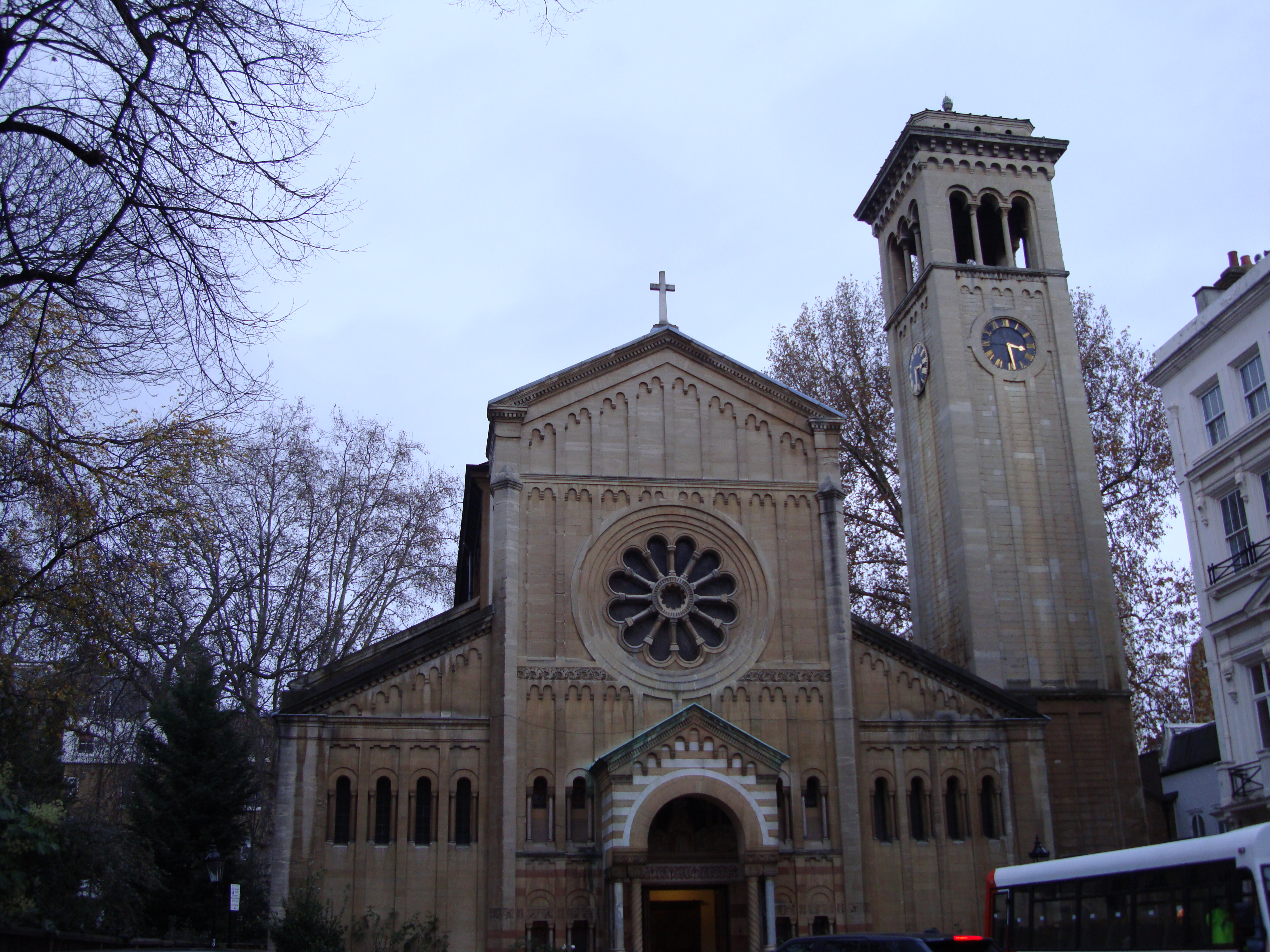 Photograph of the Russian Orthodox Cathedral, Knightsbridge, London